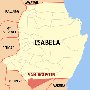 Map of Isabela showing the location of San Agustin